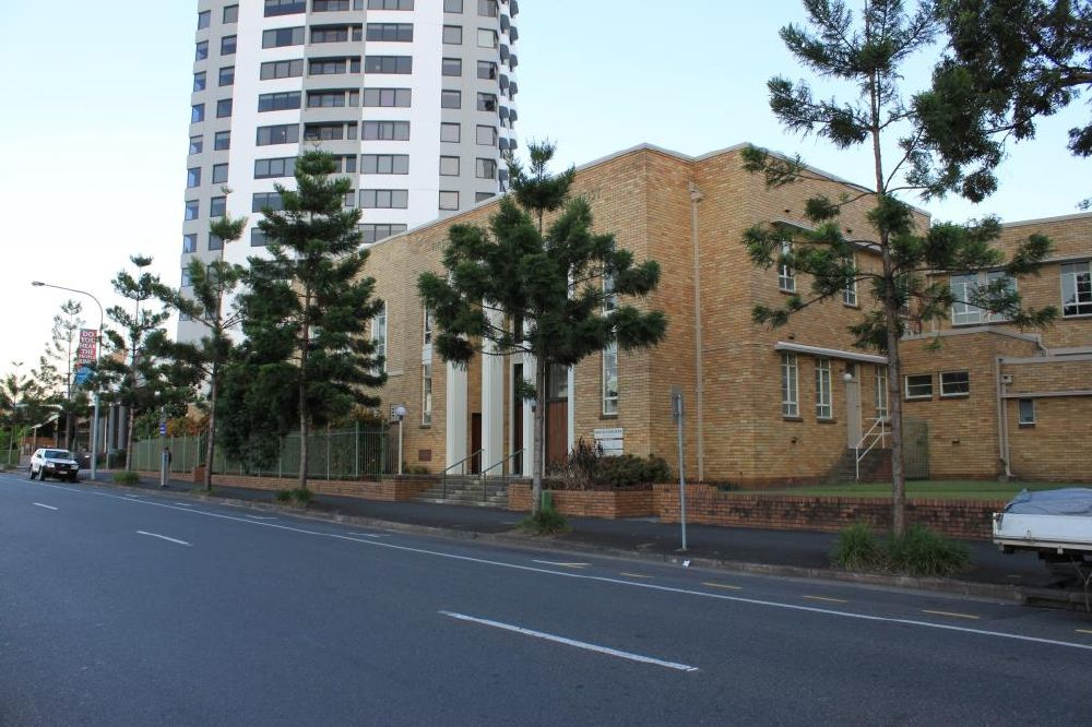 View from North Quay (2015)